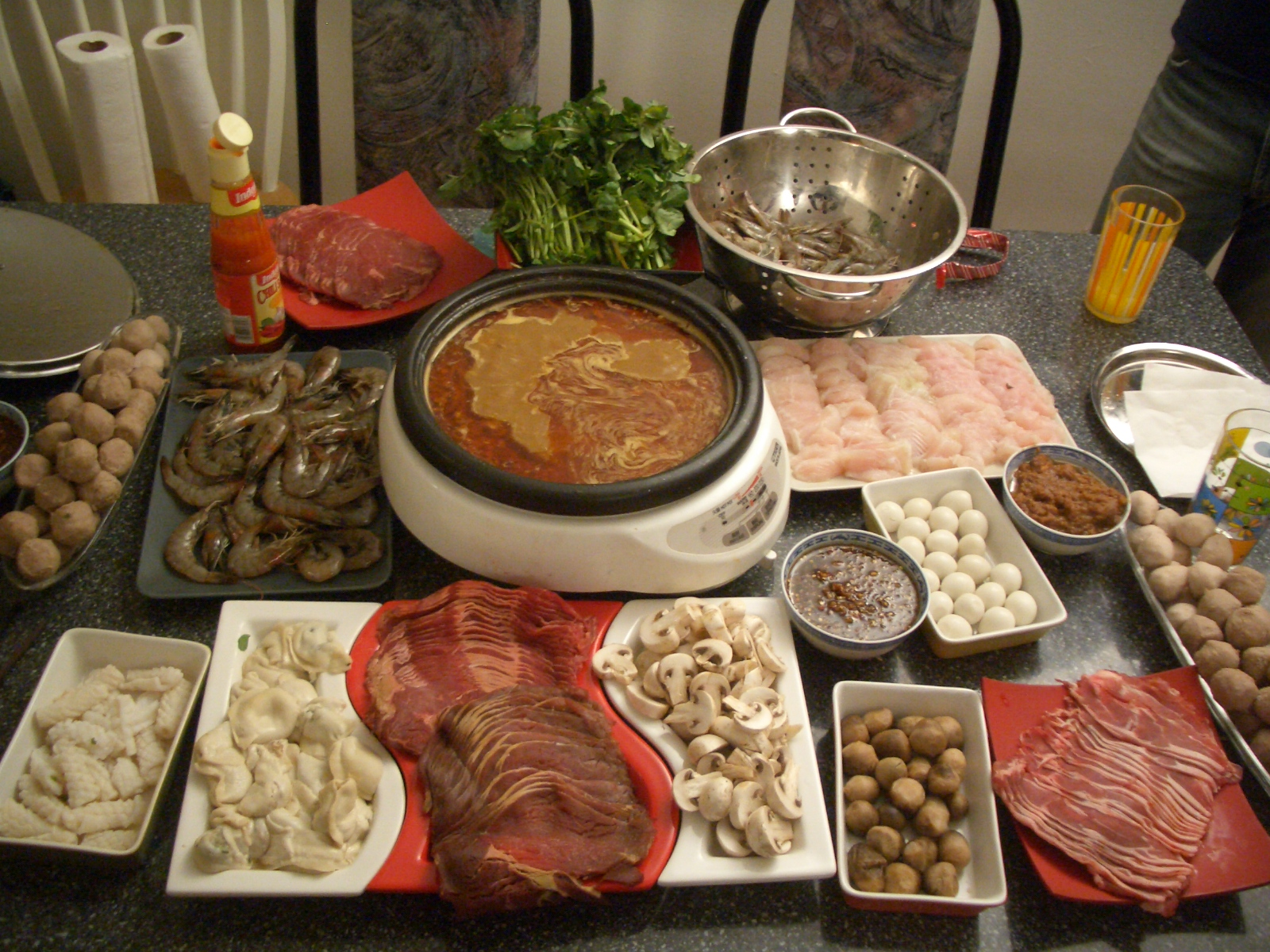 Hot Pot.